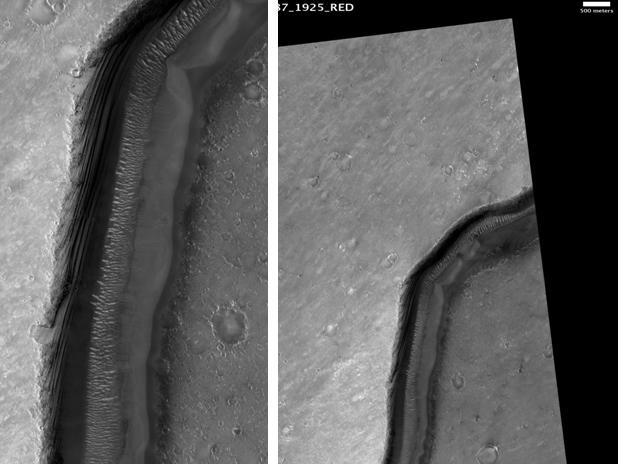 Arnus Vallis Layers, as seen by hirise. Location is 12.5 degrees north latitude and 70 degrees east longitude. Scale bar is 500 meters long. Image was taken by the Mars Reconnaissance Orbiter's HiRISE. The HiRISE camera was built by Ball Aerospace and Technology Corporation and is operated by the University of Arizona. Image courtesy NASA/JPL/University of Arizona.